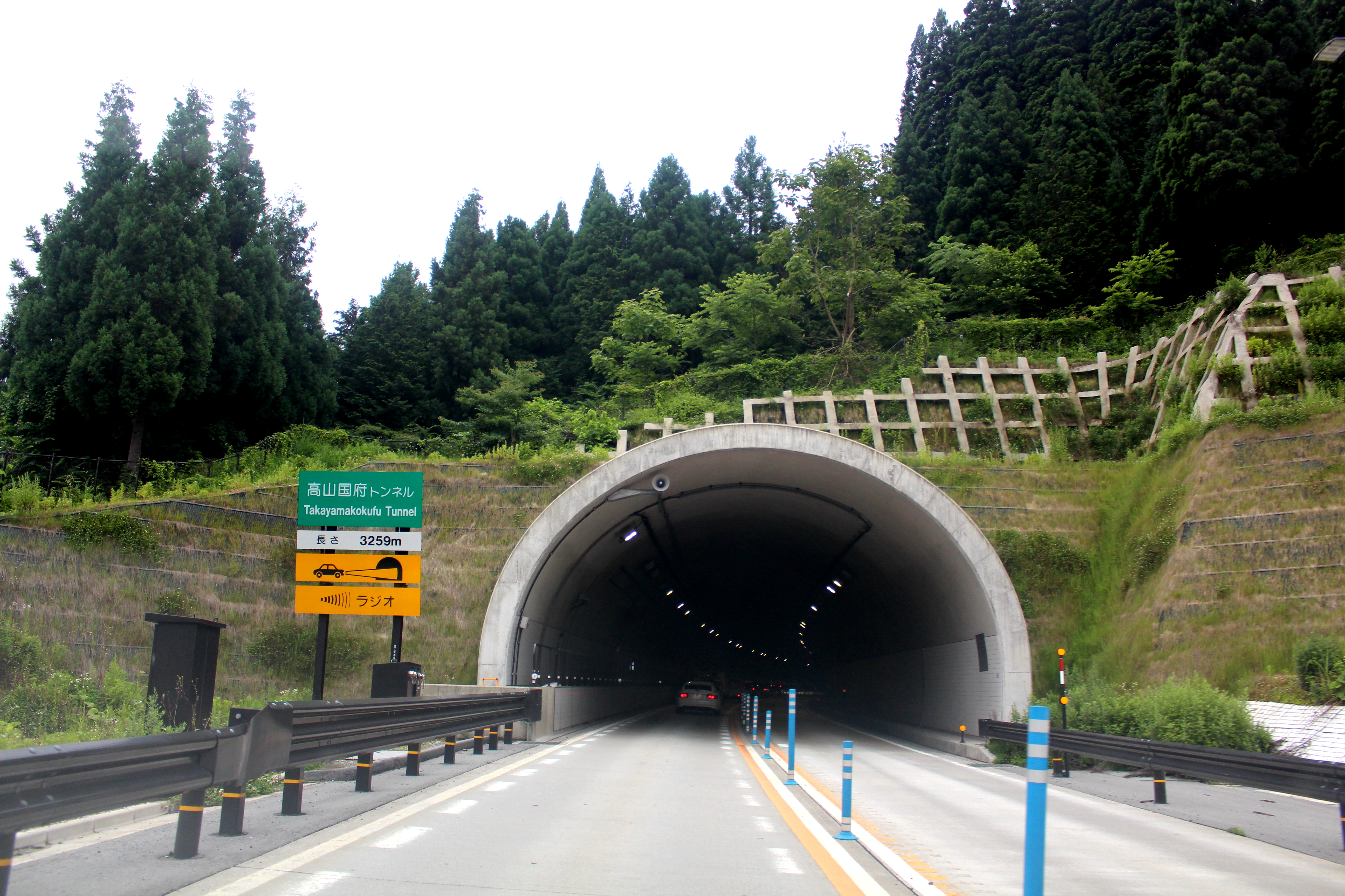 Takayamakokuhu Tunnel of Takayamakokuhu (Bypass of Route 41), in Takayama, Gifu prefecture, Japan.